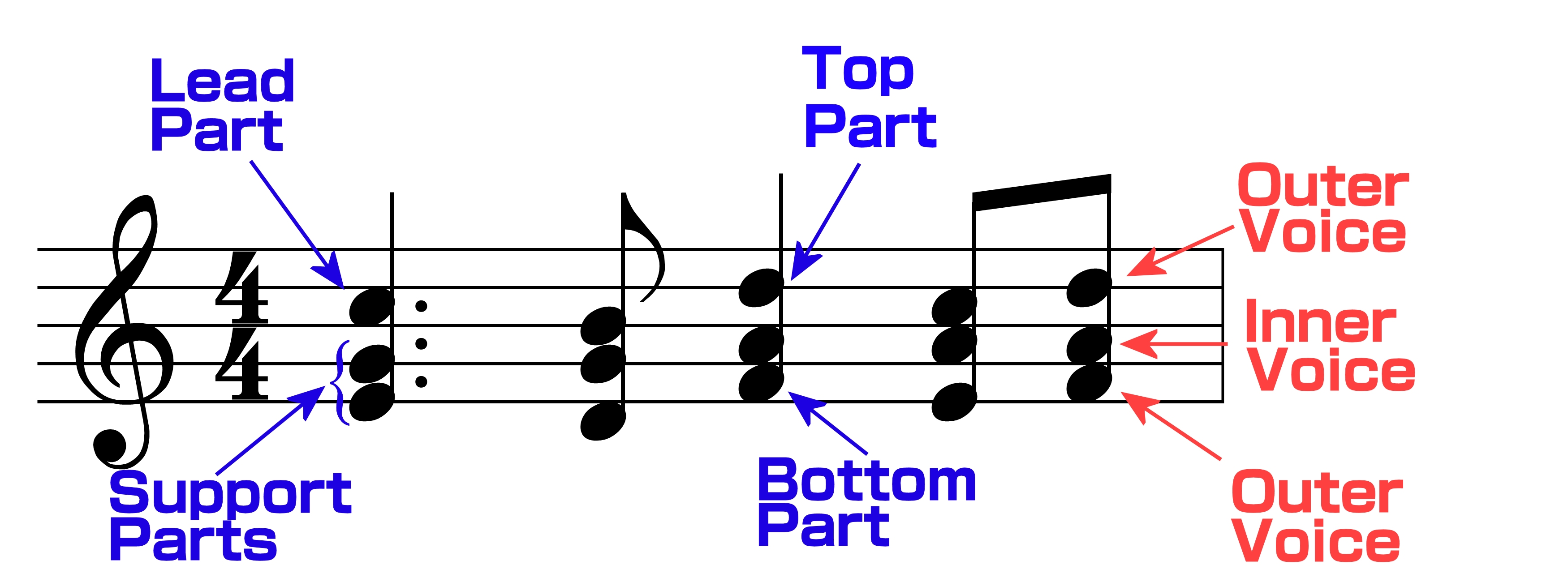 The basic structure of sectional harmony.